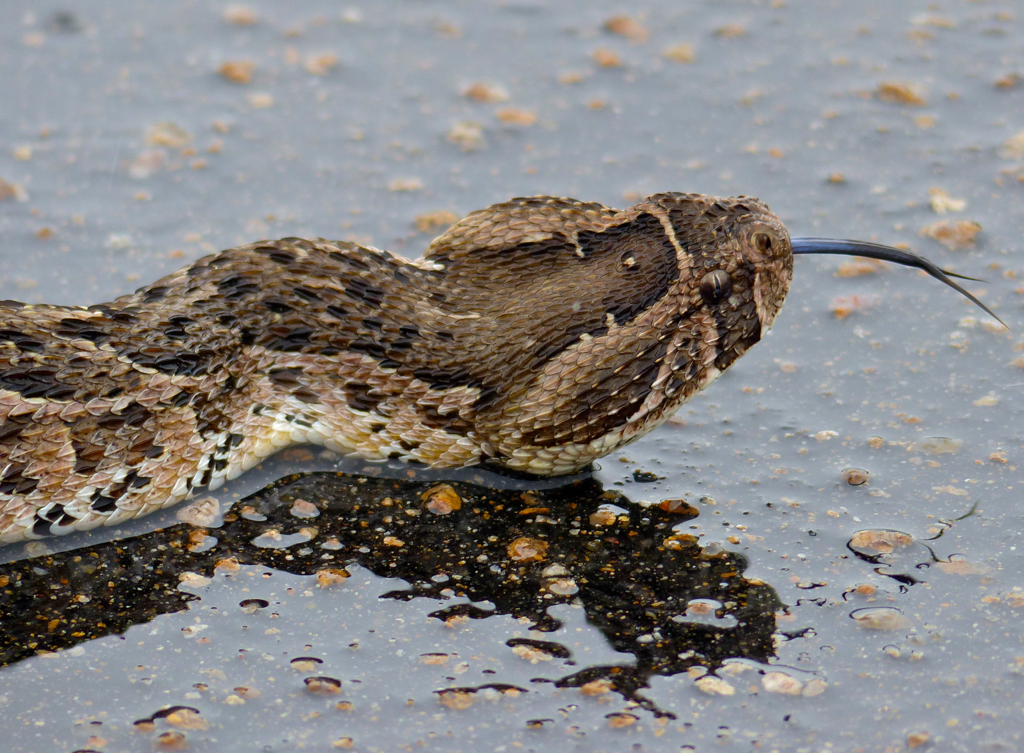 H1-3 Road south of Satara, Kruger National Park, South Africa